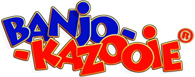 Banjo-Kazooie's logo.